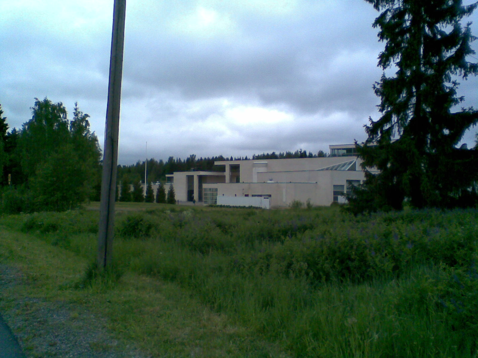 The Pirkkala Church in Pirkkala, Finland in the midst of midsummer green. Completed in 1994. Architects: Simo and Käpy Paavilainen.